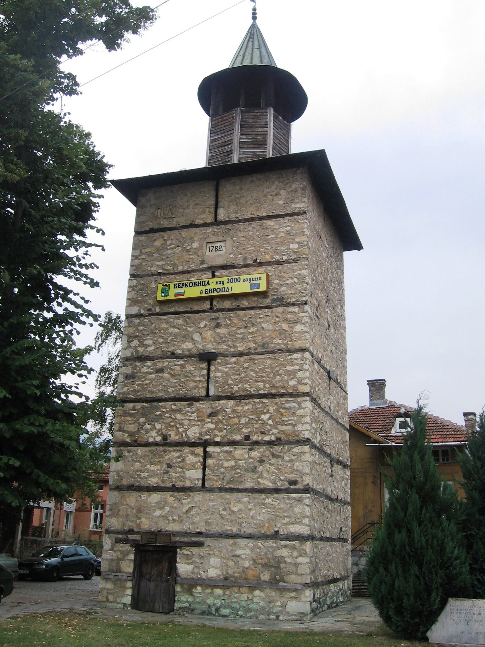 Berkovitsa Clock Tower